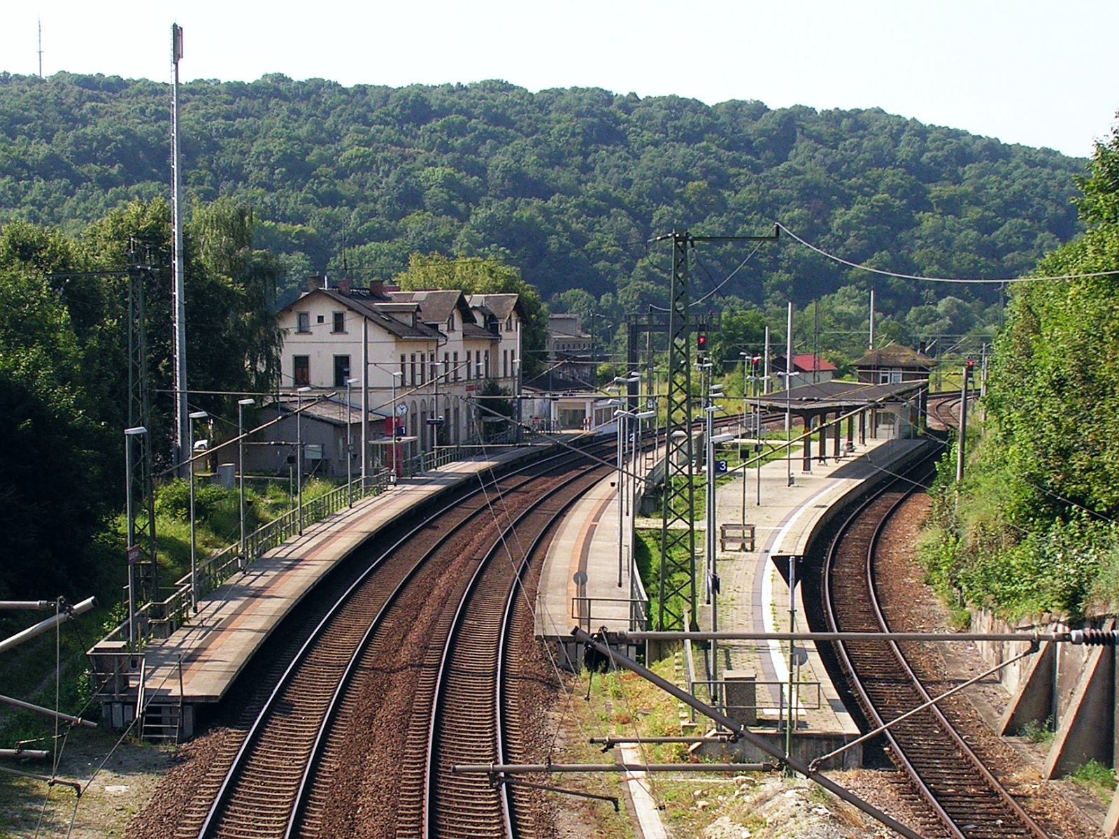 Railroad Station Camburg Saale ("Saalbahn", founded may 1st, 1874) in Thuringia, platforms, intwelocking atation, railroad Tracka photo Wolfgang Pehlemann DSCN2460